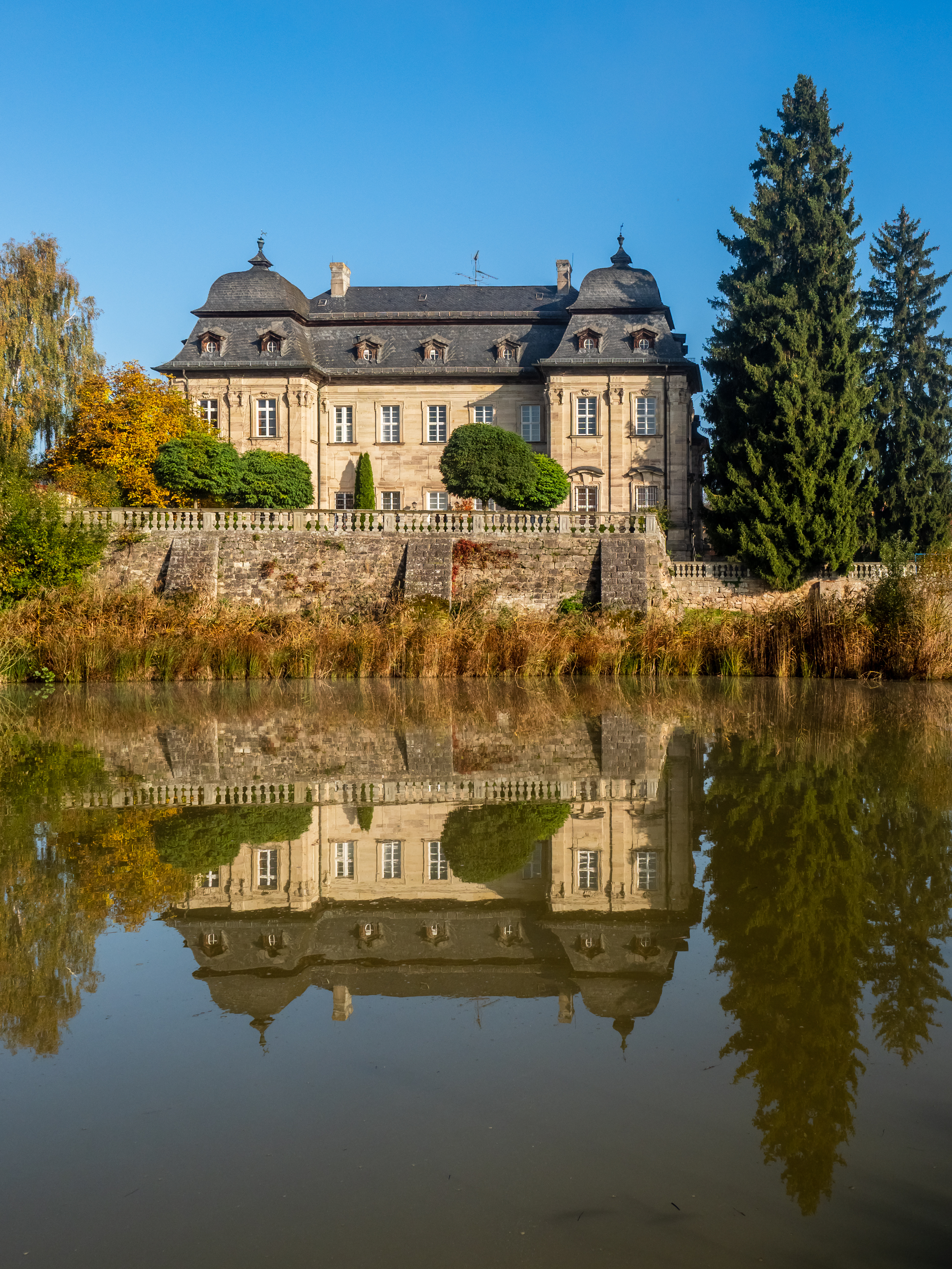 The Burgwindheim administrative castle from the rear side